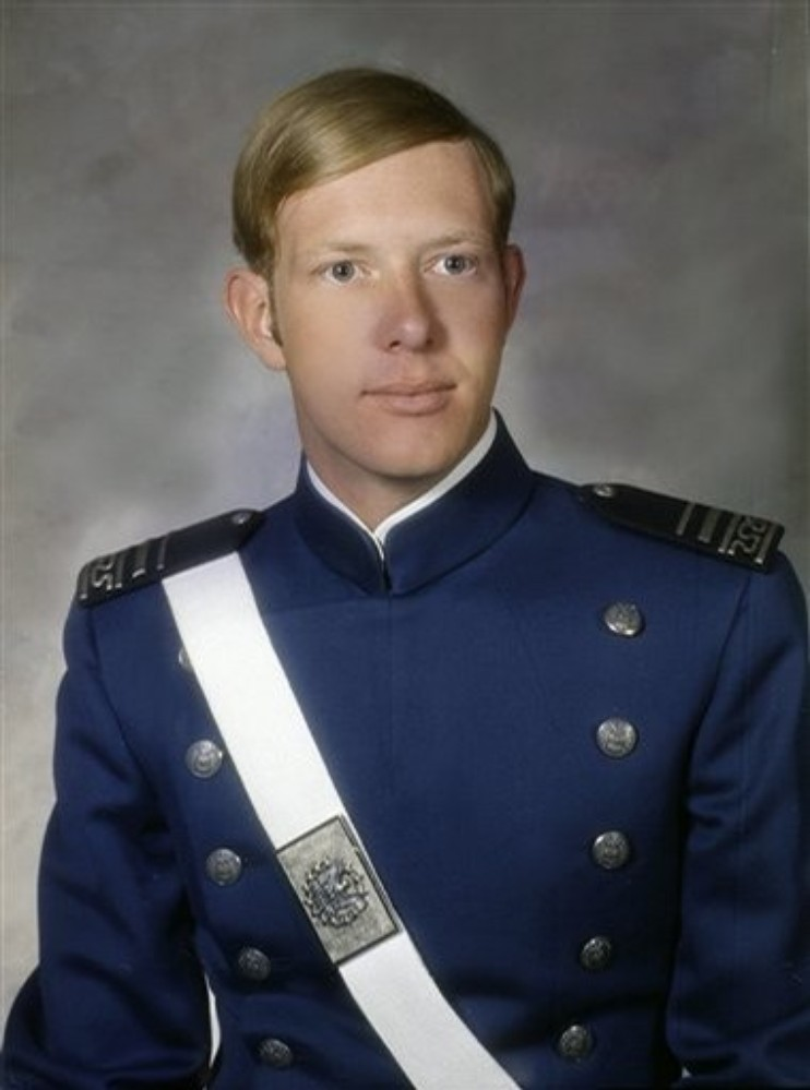 Chesley Burnett "Sully" Sullenberger III, senior class photo, United States Air Force Academy, Class of 1973.